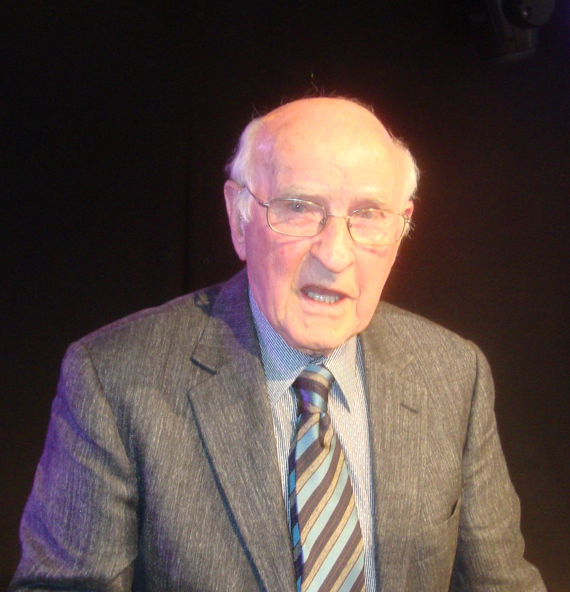 Lloyd Geering speaking in Christchurch on 3 September 2011.